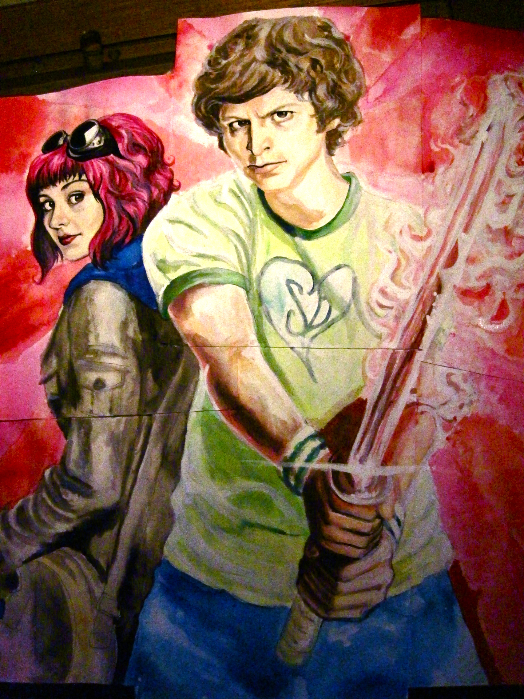 Acrylic Ink on six sheets of Wet Media Paper